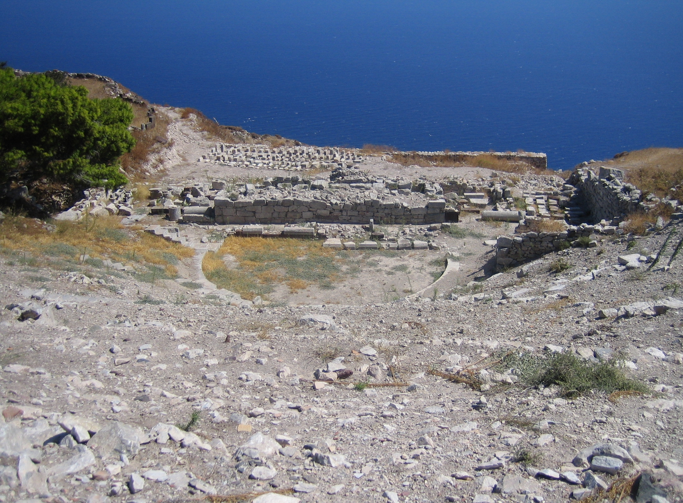 Theatre in Ancient Thera.